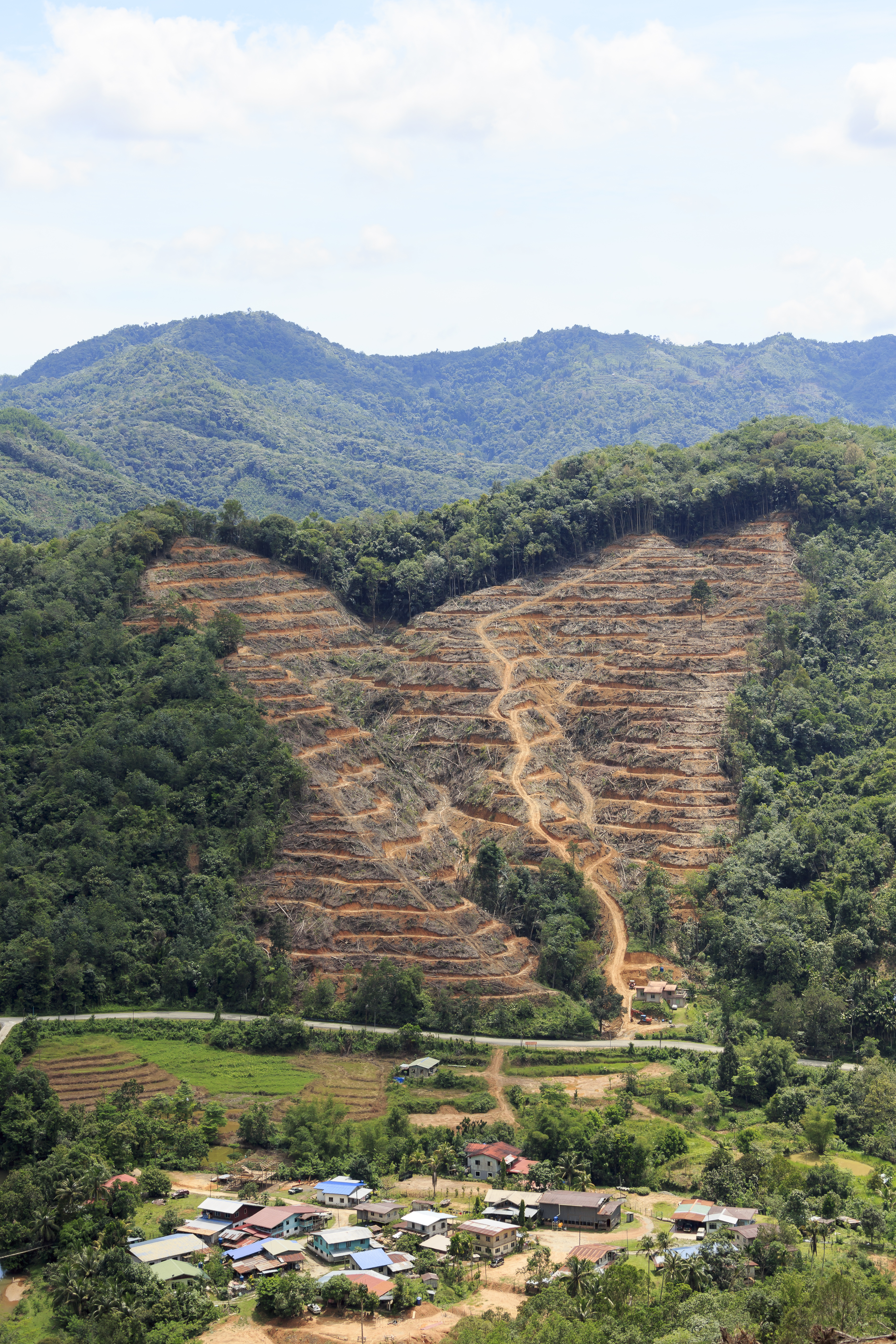 Tombongon, Kiulu, Sabah: View of Kg. Tombongon and a deforestation at a slope behind St. Joseph's Church